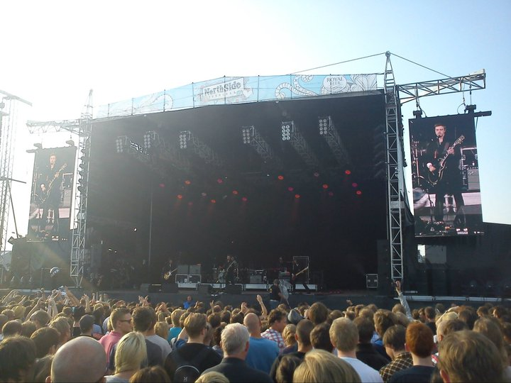 Interpol performing live at NorthSide Festival 2011